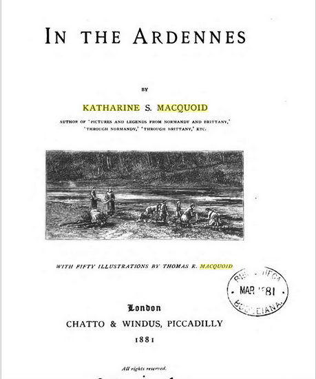 In the Ardennes, by Katharine Sarah Macquoid